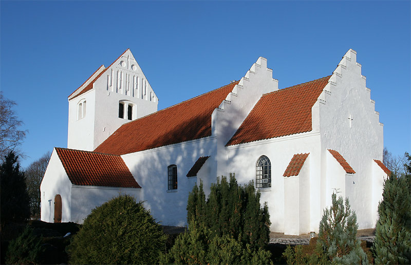 Asnæs Kirke (church) in the northwestern part of Zealand, Denmark Photo taken December 2005 by Henrik Jessen